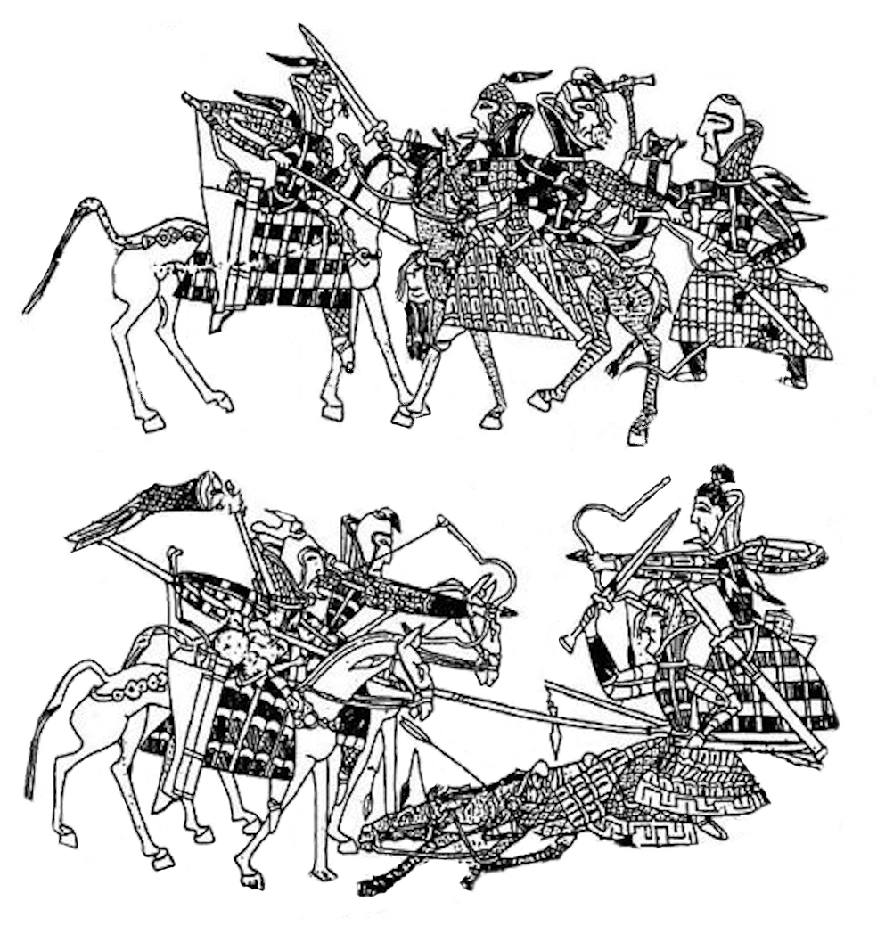 Orlat plaque battle scenes